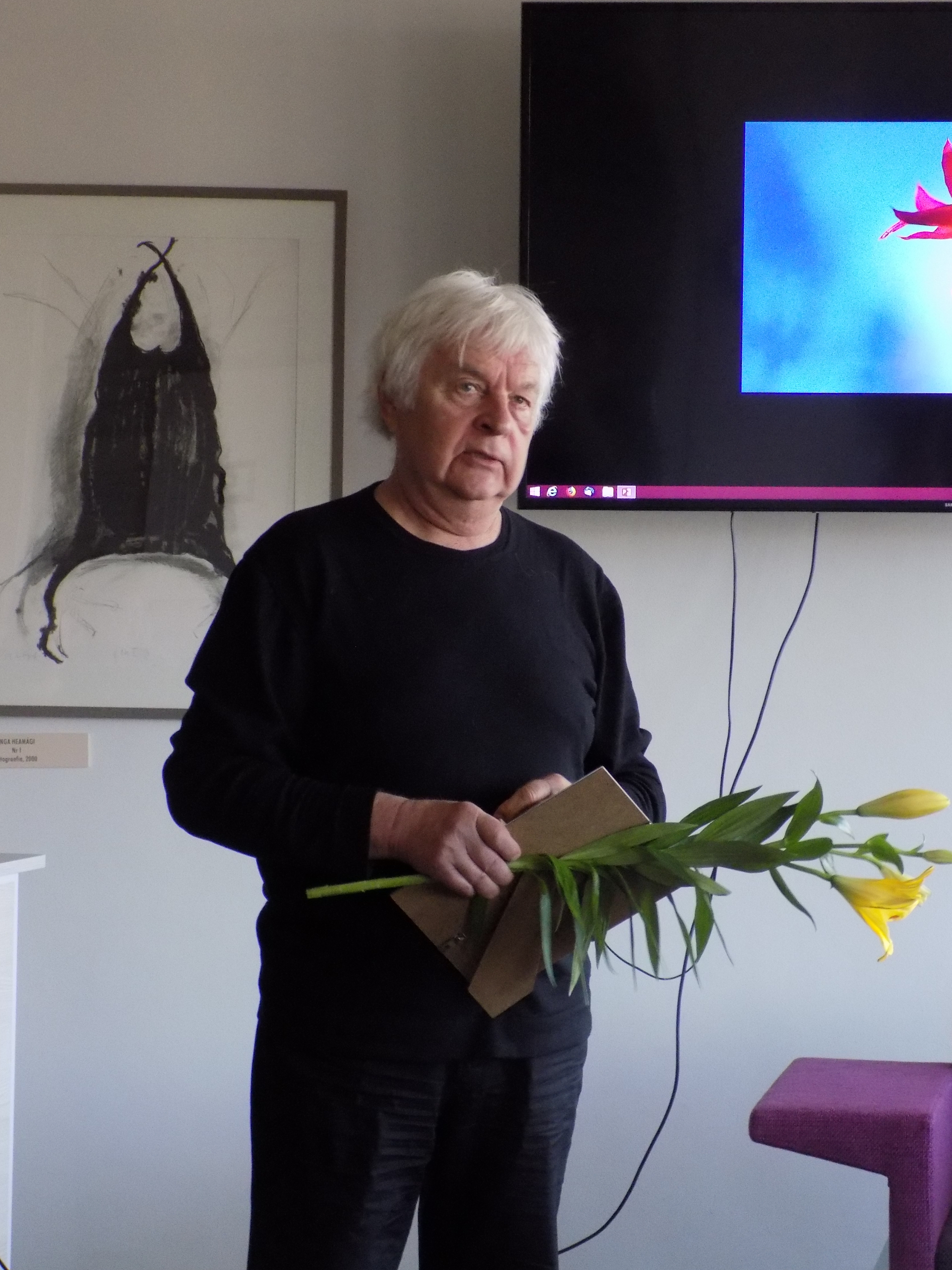 Estonian